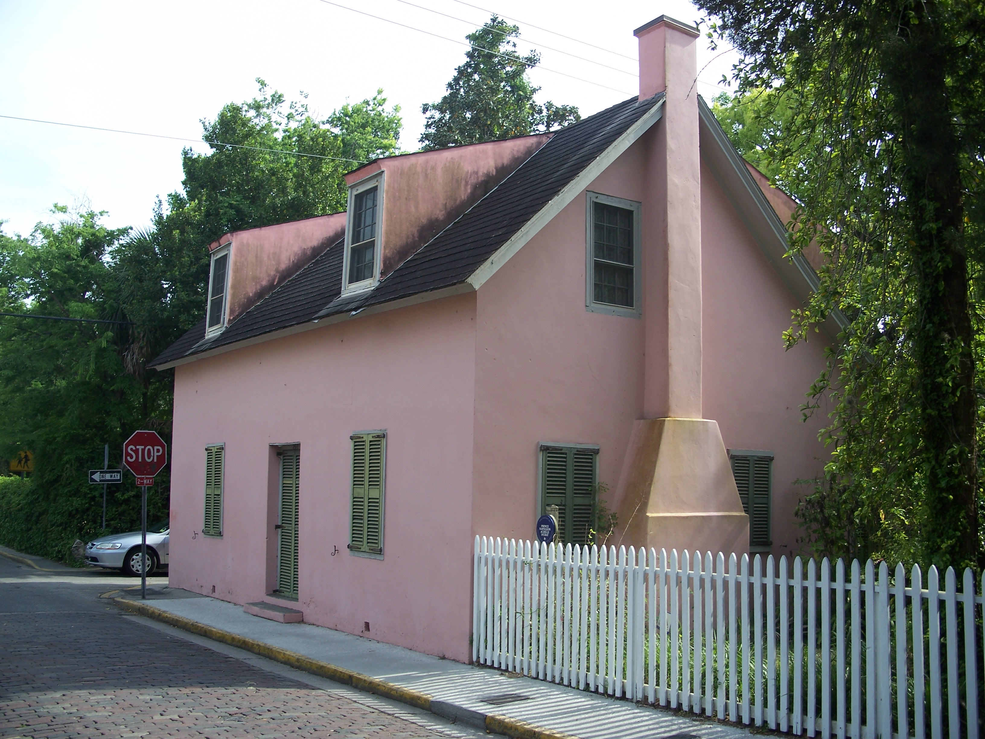 St. Augustine Town Plan Historic District: Murat House.